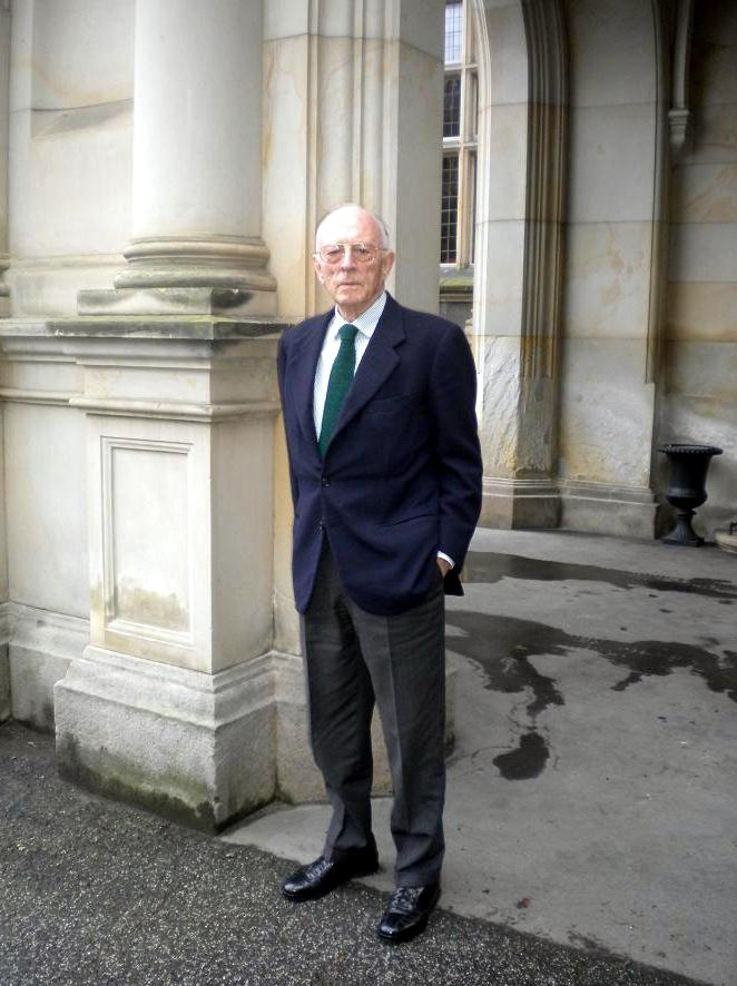 HRH Landgrave Moritz, Landgrave of Hesse in front of Friedrichshof Castle in Hesse, central Germany.